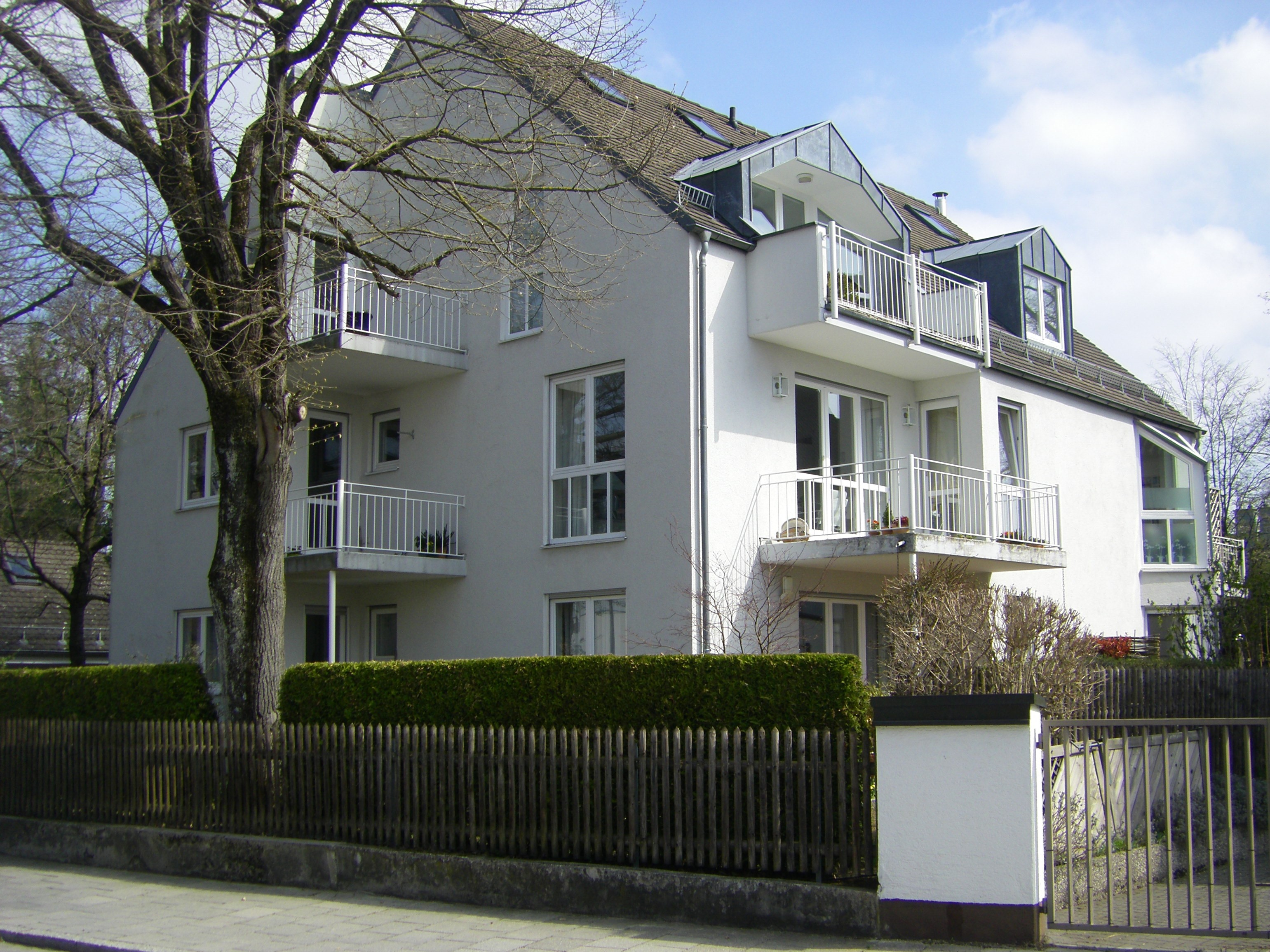 In this building lived the young German actress Vera Tschechowa while she was visited by Elvis Presley in early March of 1959.